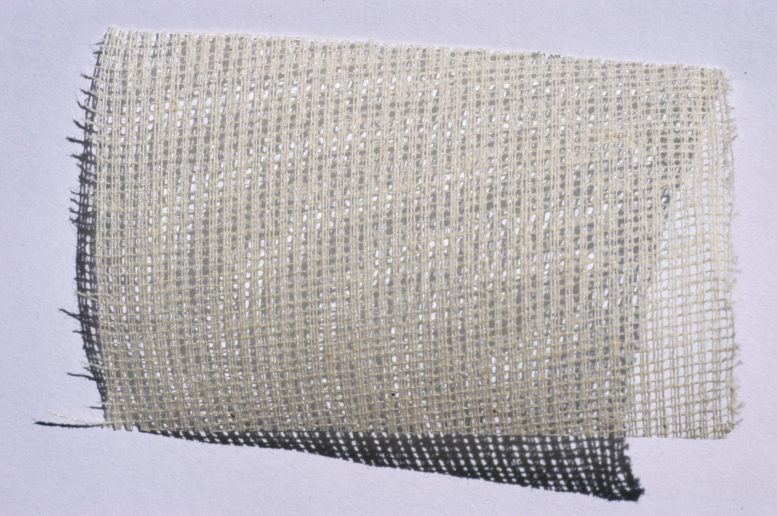 Gauze